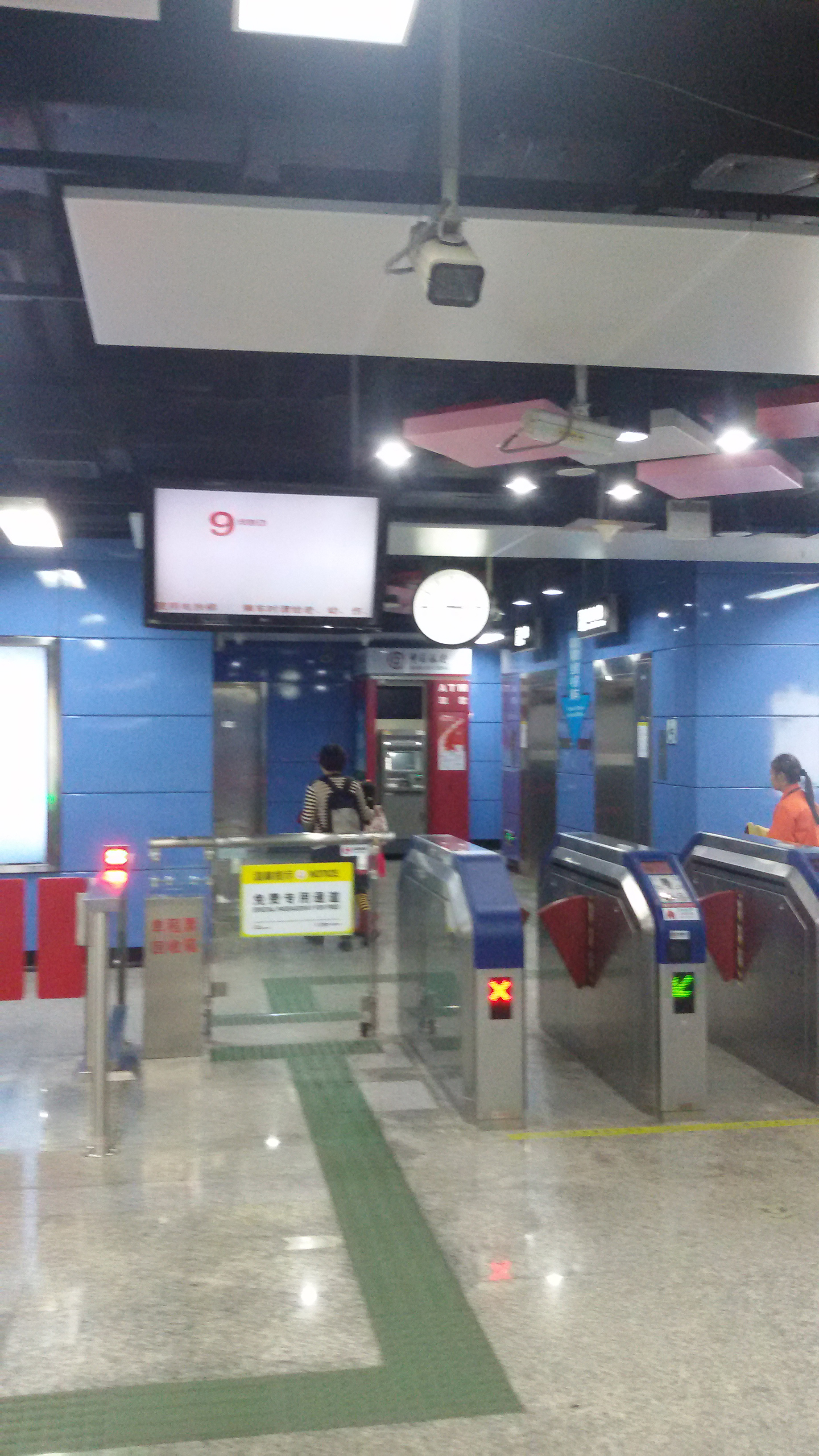 Station Concourse for Tianhe South Station in Guangzhou Metro. 粵語: 廣州地鐵，天河南站嘅站廳。